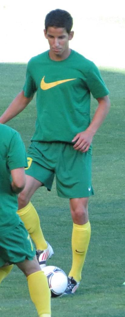 Photo - Slovak footballer Jakub Paur